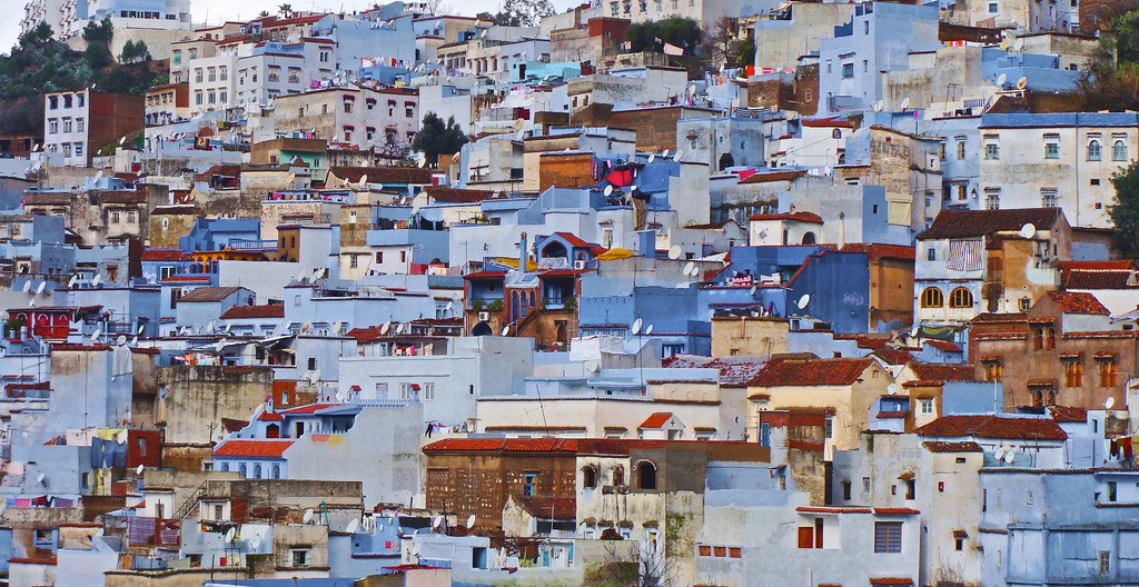 Morocco